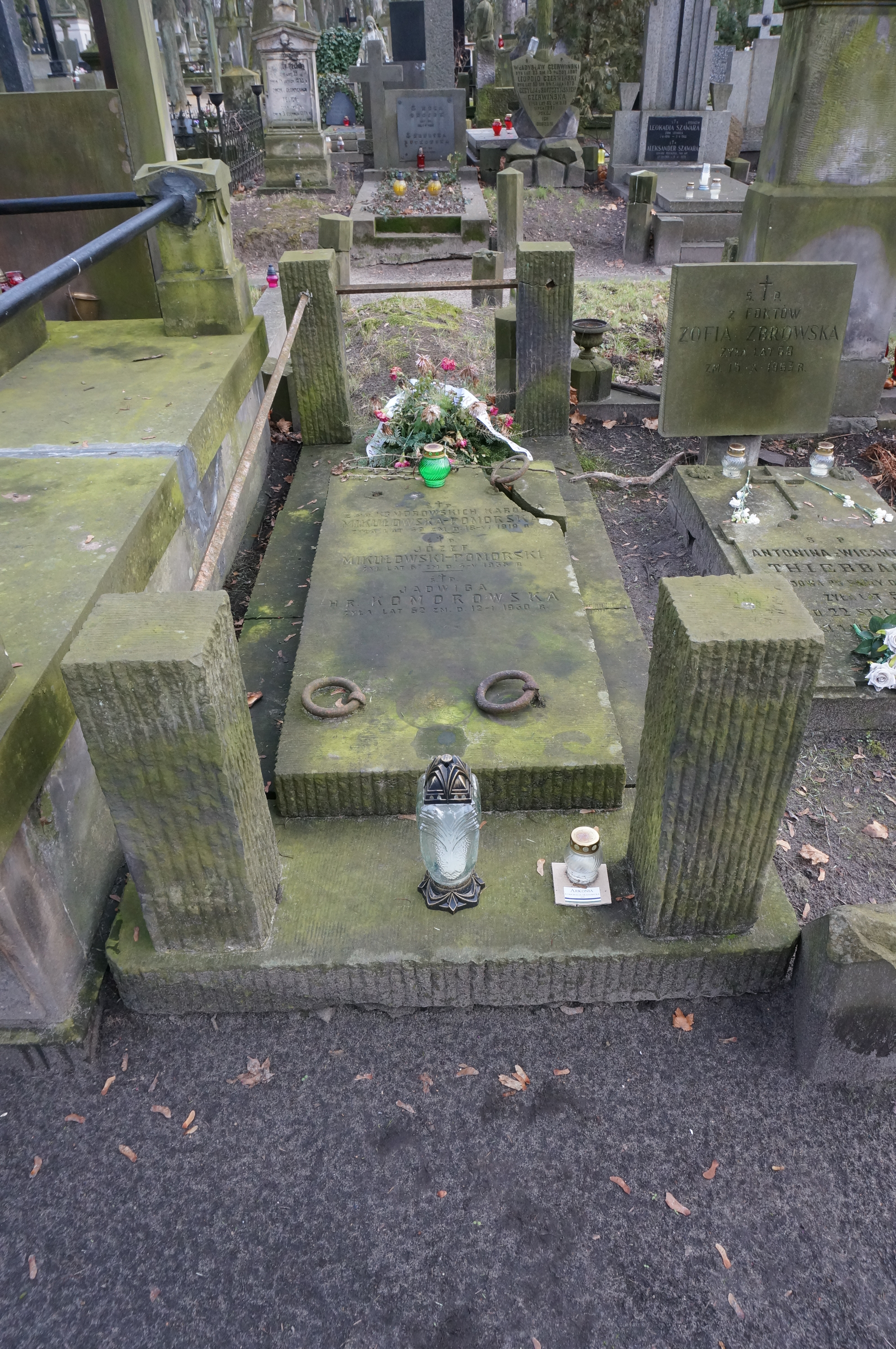 The grave of Józef Mikułowski-Pomorski at the Powązki Cemetery (section 187, row 6, grave 4)